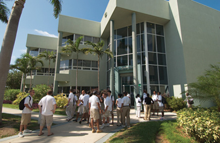 Picture of School on Island